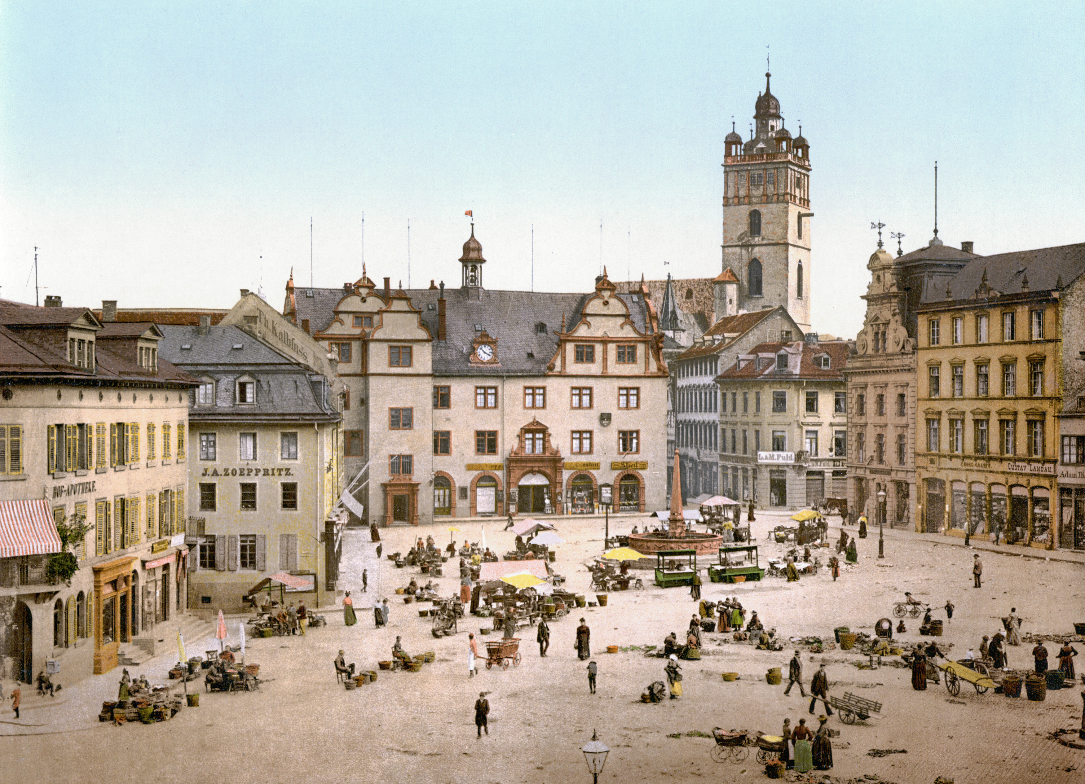 Darmstadt's market square, Germany, about 1900